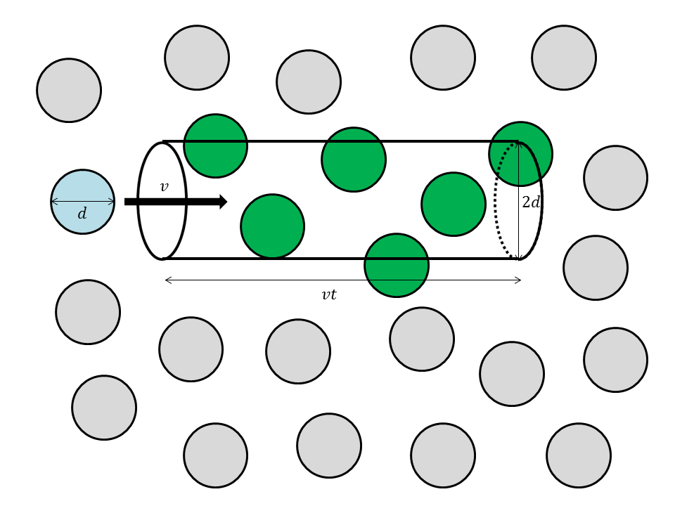 This image can be used if you want to derive Mean Free Path.